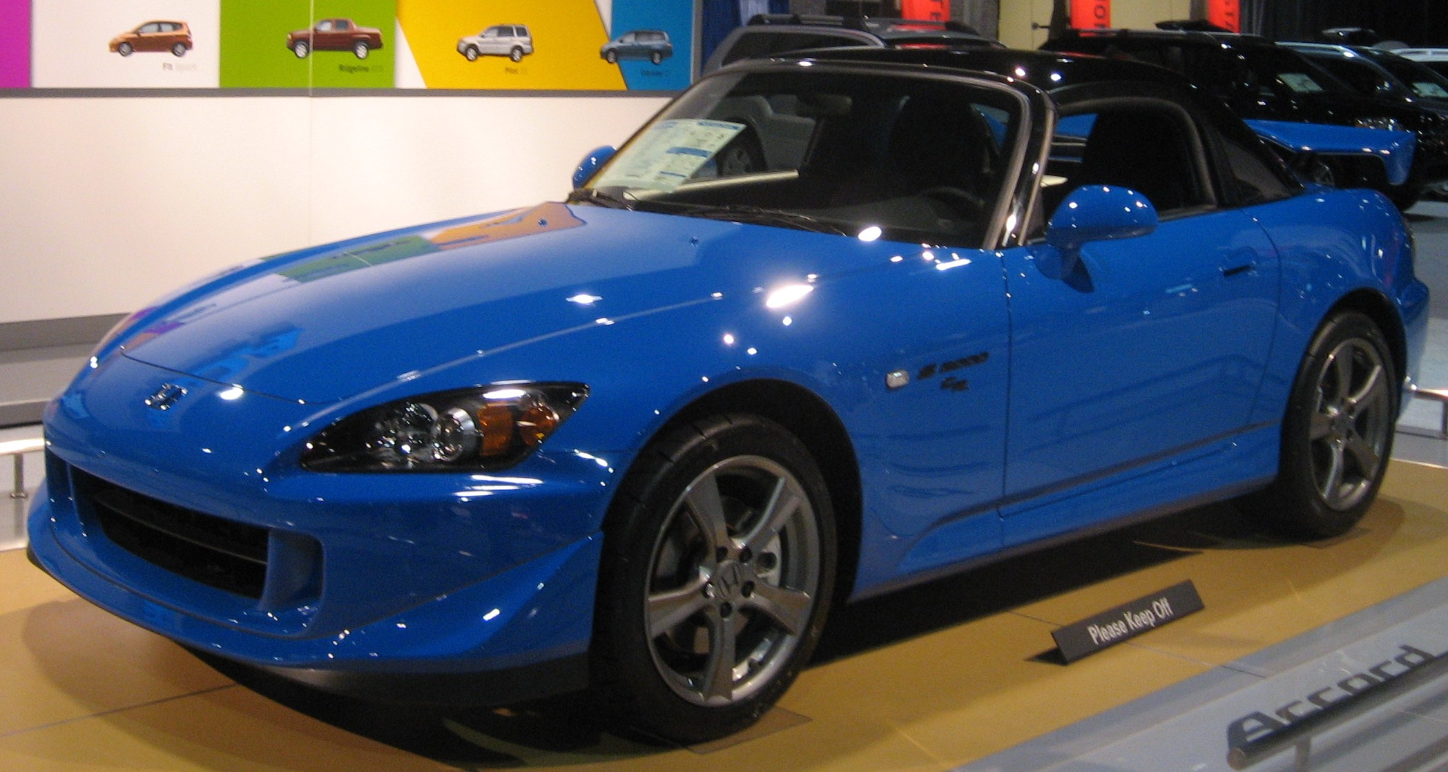 2008 Honda S2000 photographed at the 2008 Washington DC Auto Show.